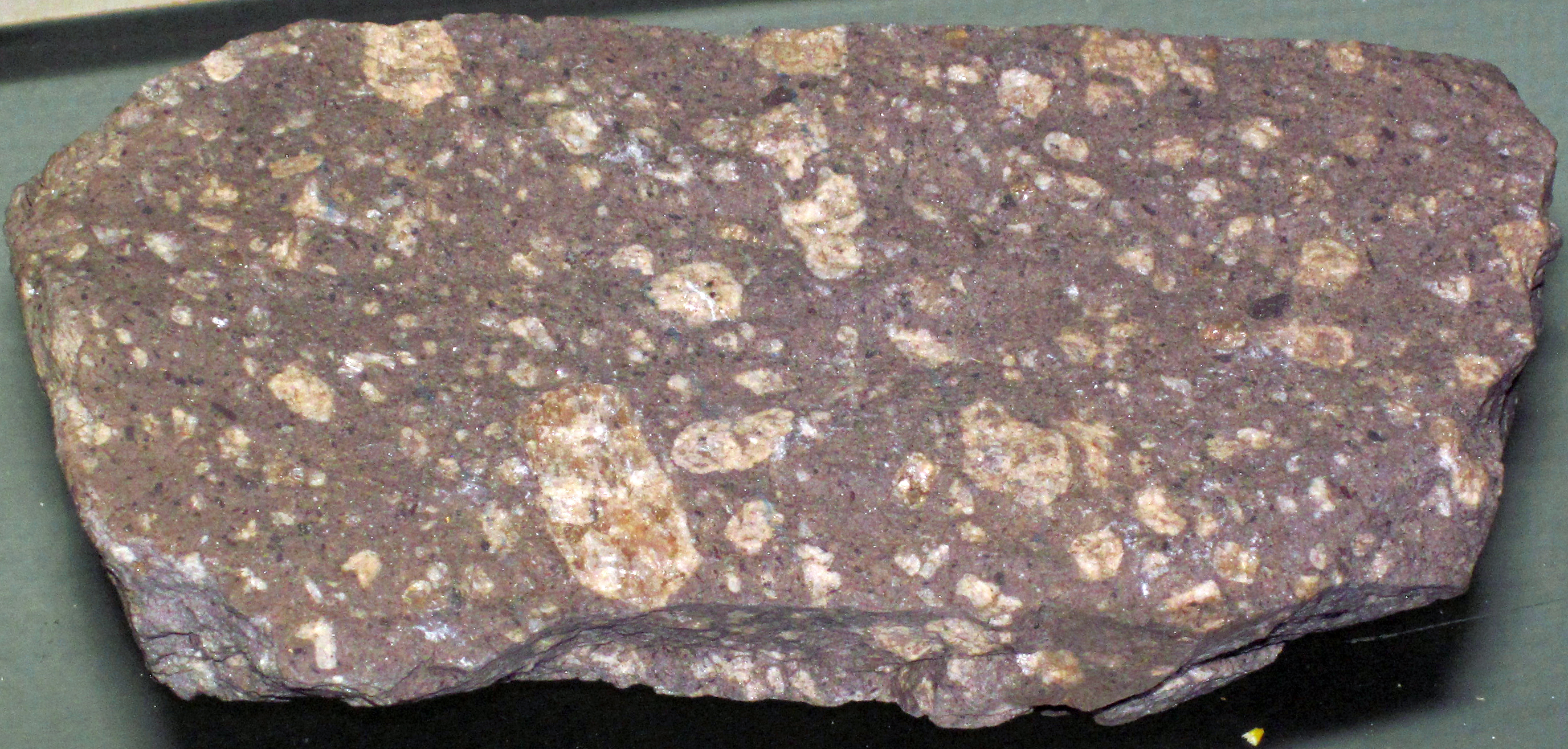 Porphyritic rhyodacite from the Pleistocene of Arizona, USA. (public display, Geology Department, Wittenberg University, Springfield, Ohio, USA) This volcanic lava sample comes from O'Leary Peak, a breached volcanic dome in Arizona's San Francisco Volcanic Field. It has a porphyritic texture, which refers to crystalline-textured igneous rocks having a mixture of large crystals (phenocrysts) and small crystals (groundmass). The light-colored, angular masses in the rock are feldspar phenocrysts. The feldspar is sanidine ((K,Na)AlSi3O8 - potassium sodium aluminosilicate). In some samples from this locality, the sanidine is rimmed with oligoclase feldspar ((Na,Ca)Al(Si,Al)Si2O8 - sodium calcium aluminosilicate). Other phenocrysts from this rock unit include quartz and oligoclase feldspar. Geologic unit: apparently derived from the "Purple Porphyry" of the O'Leary Porphyry, upper Middle Pleistocene, ~233 ka Locality: unrecorded/undisclosed site on O'Leary Peak, just north of Sunset Crater National Monument, ~26.5 air-kilometers north-northeast of Flagstaff, San Francisco Volcanic Field, north-central Arizona, USA (vicinity of 35° 24' 04.98" North latitude, 111° 31' 40.18" West longitude)